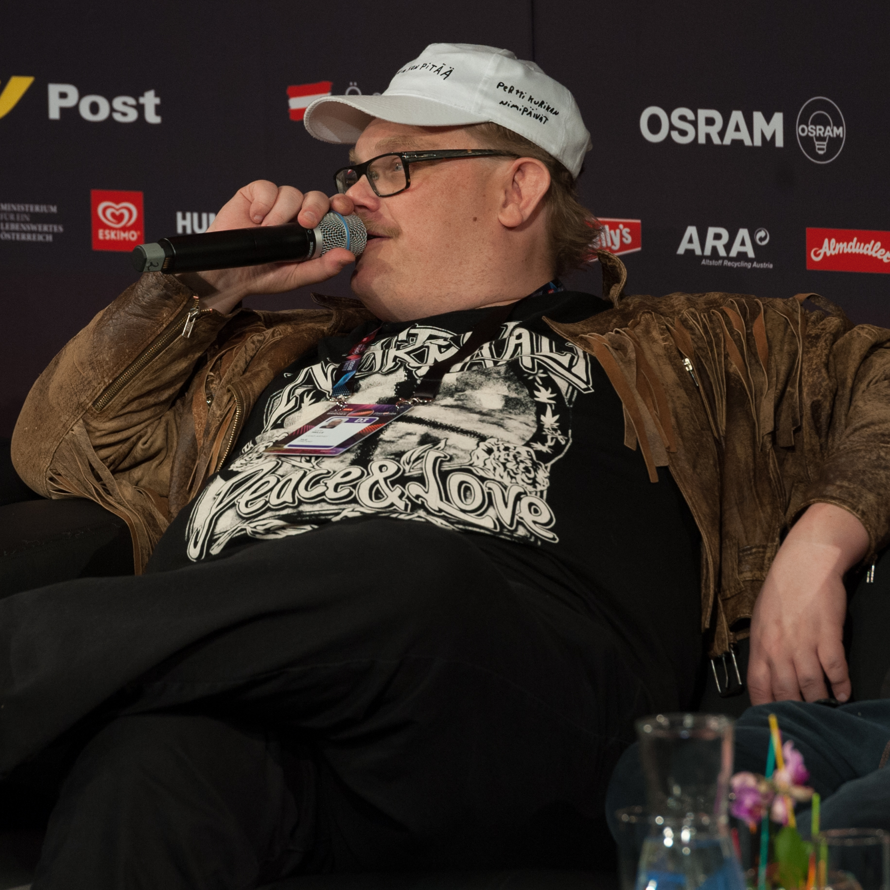 Eurovision Song Contest Vienna 2015: Pertti Kurikan Nimipäivät